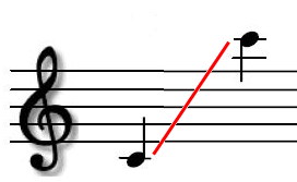 Musical range of the Xaphoon